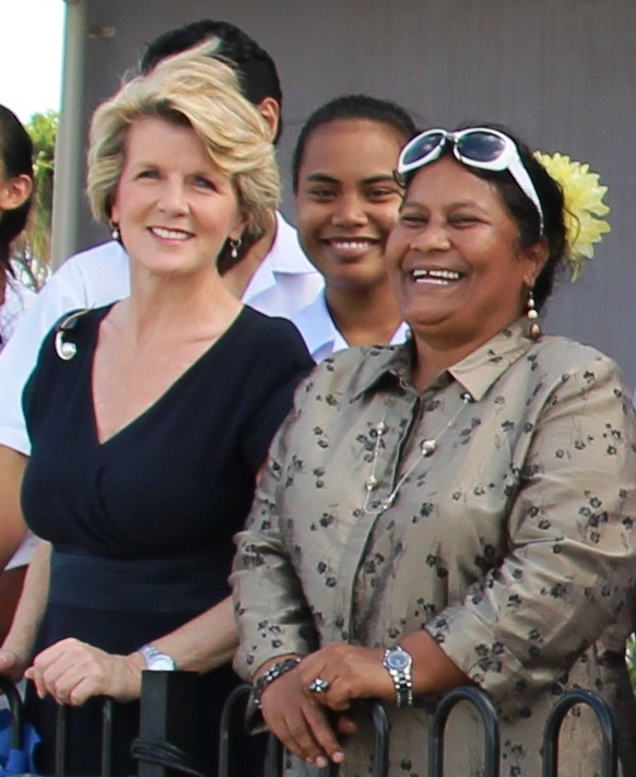 Julie Bishop and Charmaine Scotty 2013